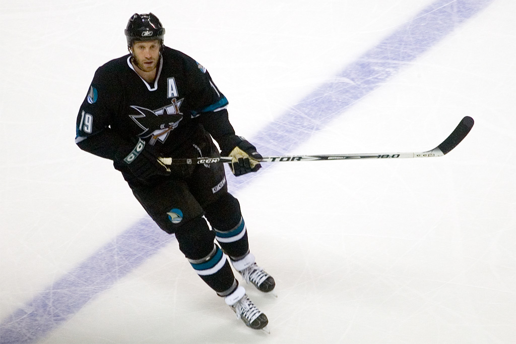 Joe Thornton Canadian ice hockey player, Detroit Red Wings vs. San Jose Sharks